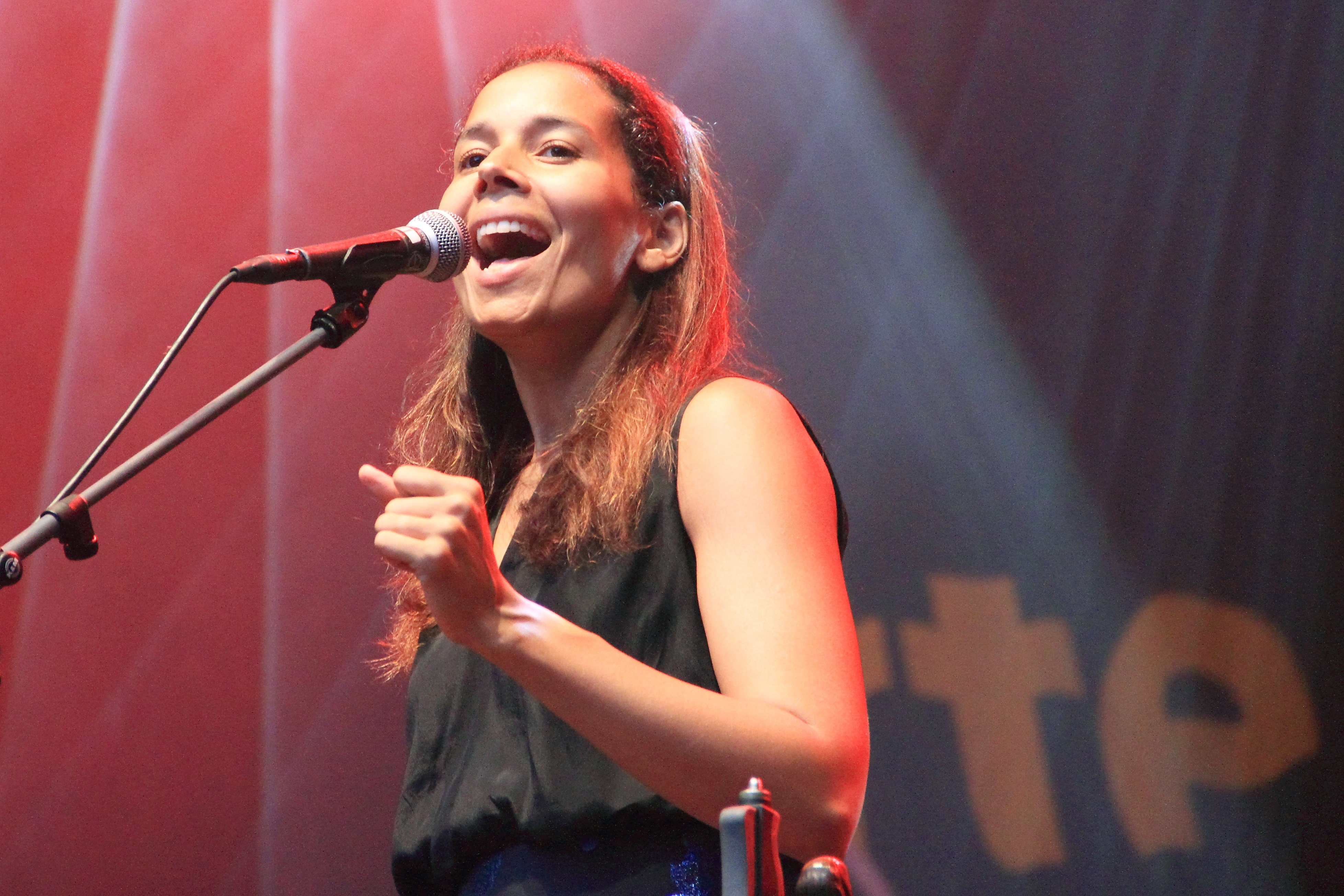 Rhiannon Giddens from North Carolina with band at TFF Rudolstadt 2015.